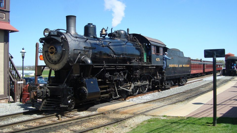 The only operational 4-8-0 in North America